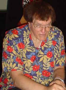 Richard Kiel in the Netherlands on May 14, 2006.